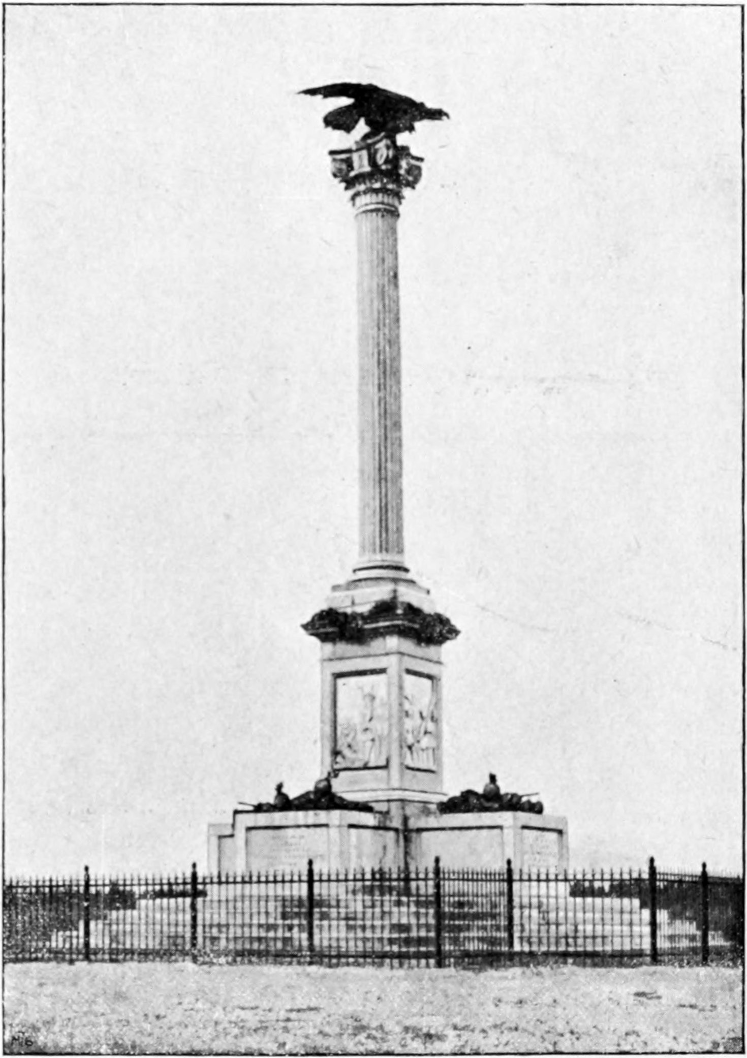 Image from book: Leopoldo Pullè, Patria Esercito Re, Ulrico Hoepli, Milan, 1908.